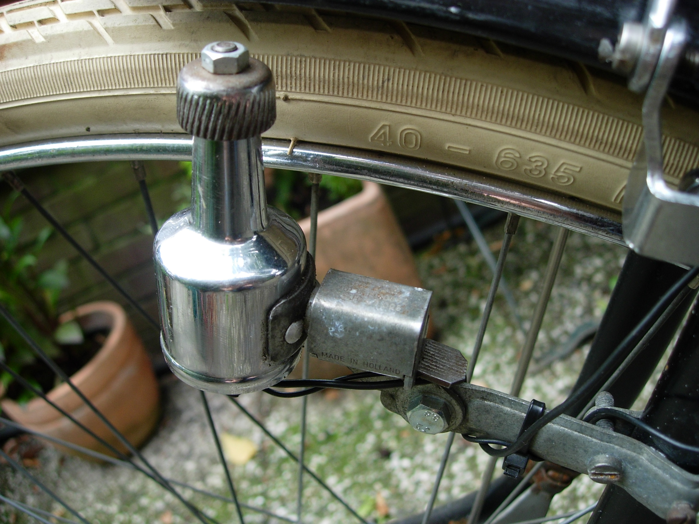 Gazelle vintage bicycle